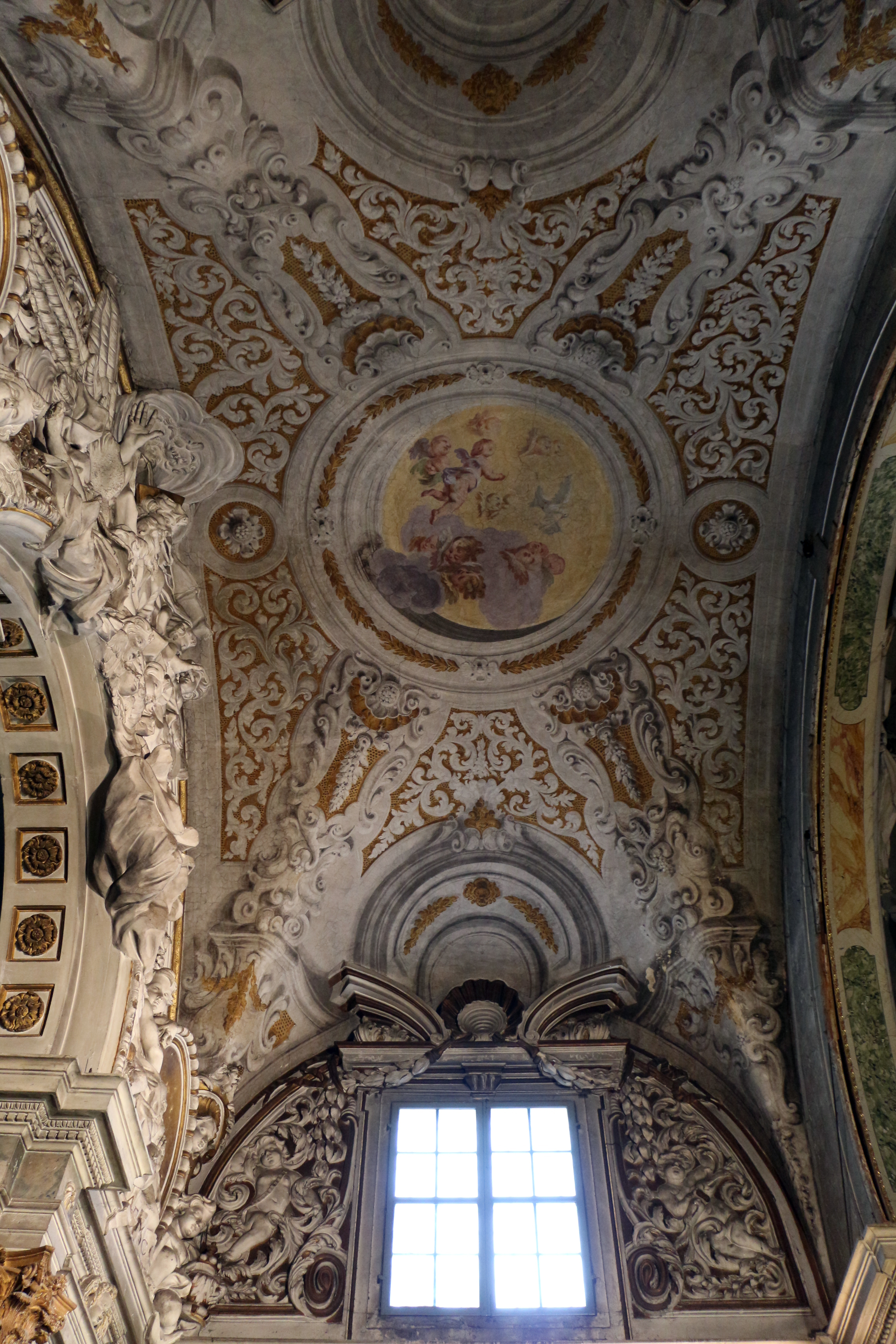 Santa Lucia alla Castellina